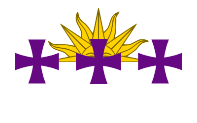 Flag of the Hispanicity